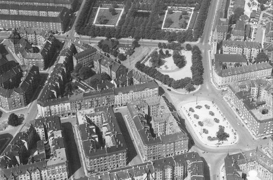 An aerial showing Enghave Plads in the Vesterbro district of Copenhagen, Denmark